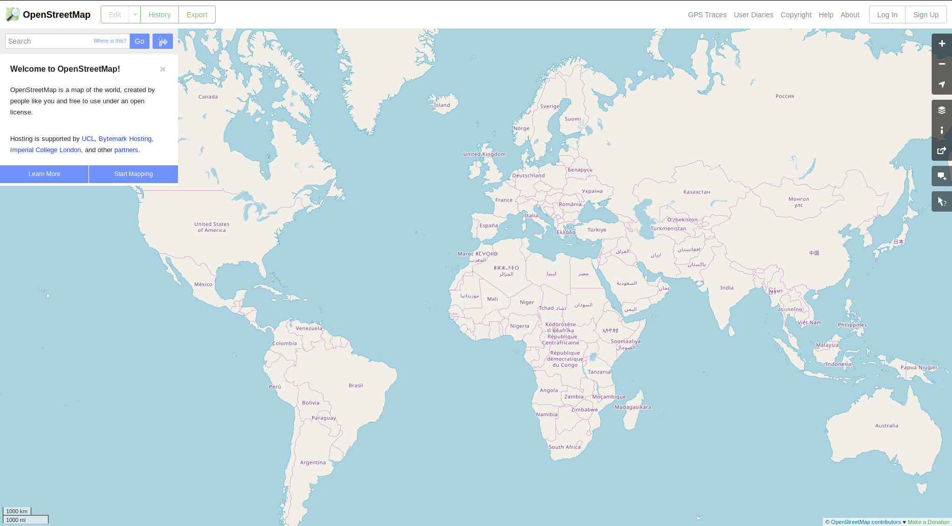 Screenshot of the OpenStreetMap homepage in 2018 (in English) Screenshot of the OpenStreetMap homepage in 2018 (in English) This map of the world was created from OpenStreetMap project data, collected by the community. This map may be incomplete, and may contain errors. Don't rely solely on it for navigation.